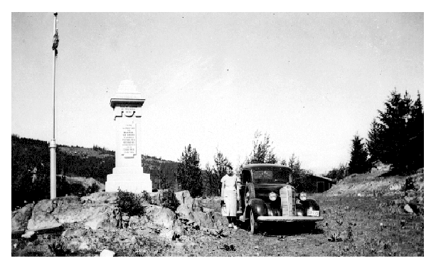 Phoenix, British Columbia, Canada, was a booming copper mining community from the late 1890s until 1919. It became a ghost town after that, and many of the buildings were demolished. The WWI memorial still remains.